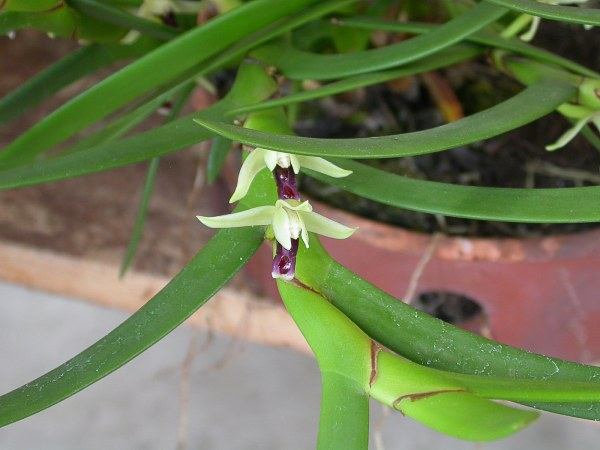 Heterotaxis equitans